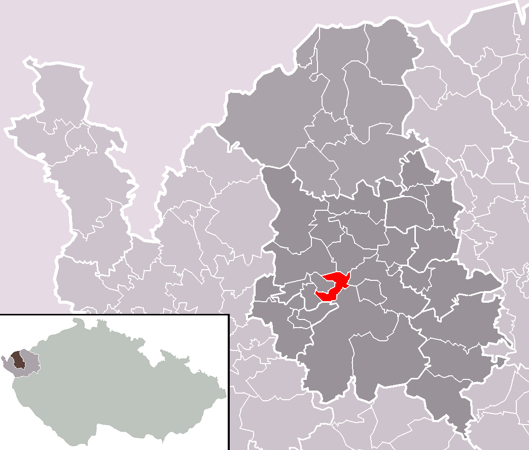 Location of Citice municipality within Sokolov District and administrative area of Sokolov as a Municipality with Extended Competence.